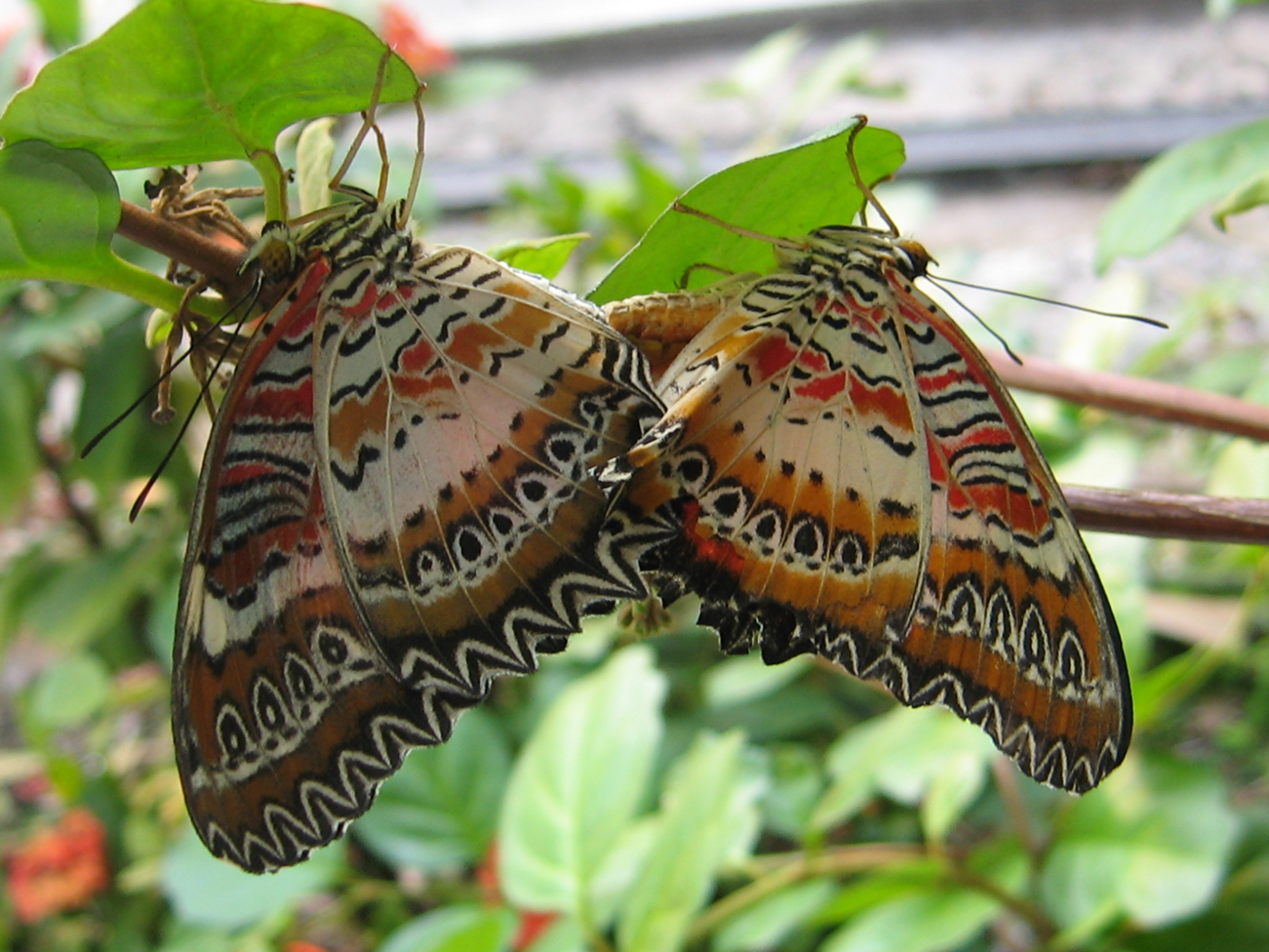 Butterlfy of species Cethosia hypsea. Picture taken at Butterfly World.